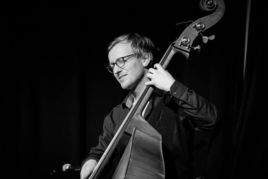 Jon Eberson & Sigurd Hole at Belleville at Cosmopolite. The concert was part of Kongshaugfestivalen and took place on 16. March 2019 in Oslo. Lineup:Jon Eberson (guitar)Sigurd Hole (double bass)